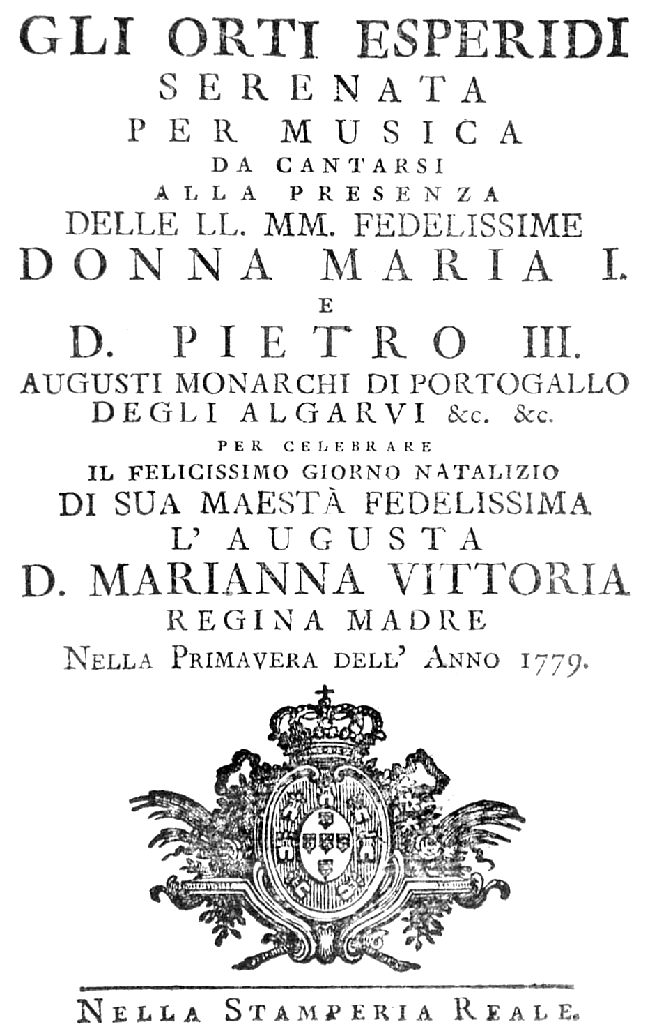 Jerónimo Francisco de Lima - Gli orti esperidi - titlepage of the libretto - Lissabon 1779